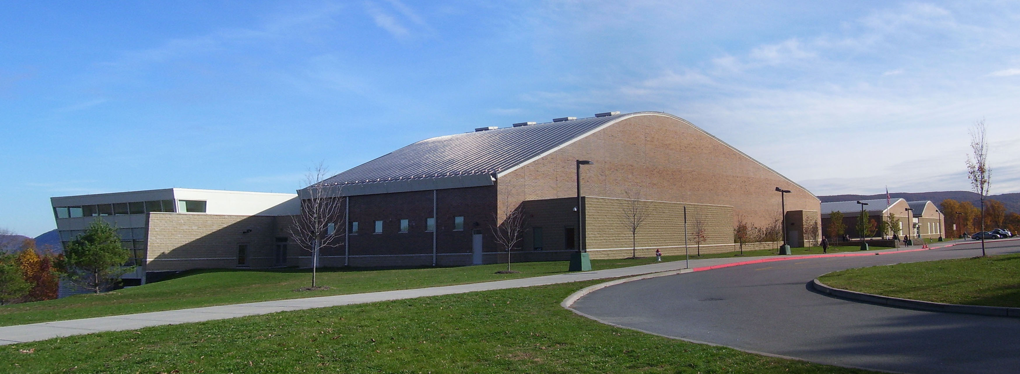 Merged from two photographs taken by User:Daniel Case 2006-10-27